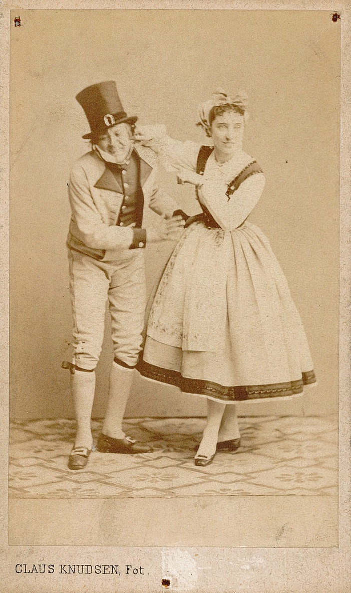 Francebased dancers (vaudeville, ballet) Adrien Gredelue and wife Dorina Merante Gredelue. Photo from 1867/68 when they were engaged to perform in Oslo/Kristiania, Norway.